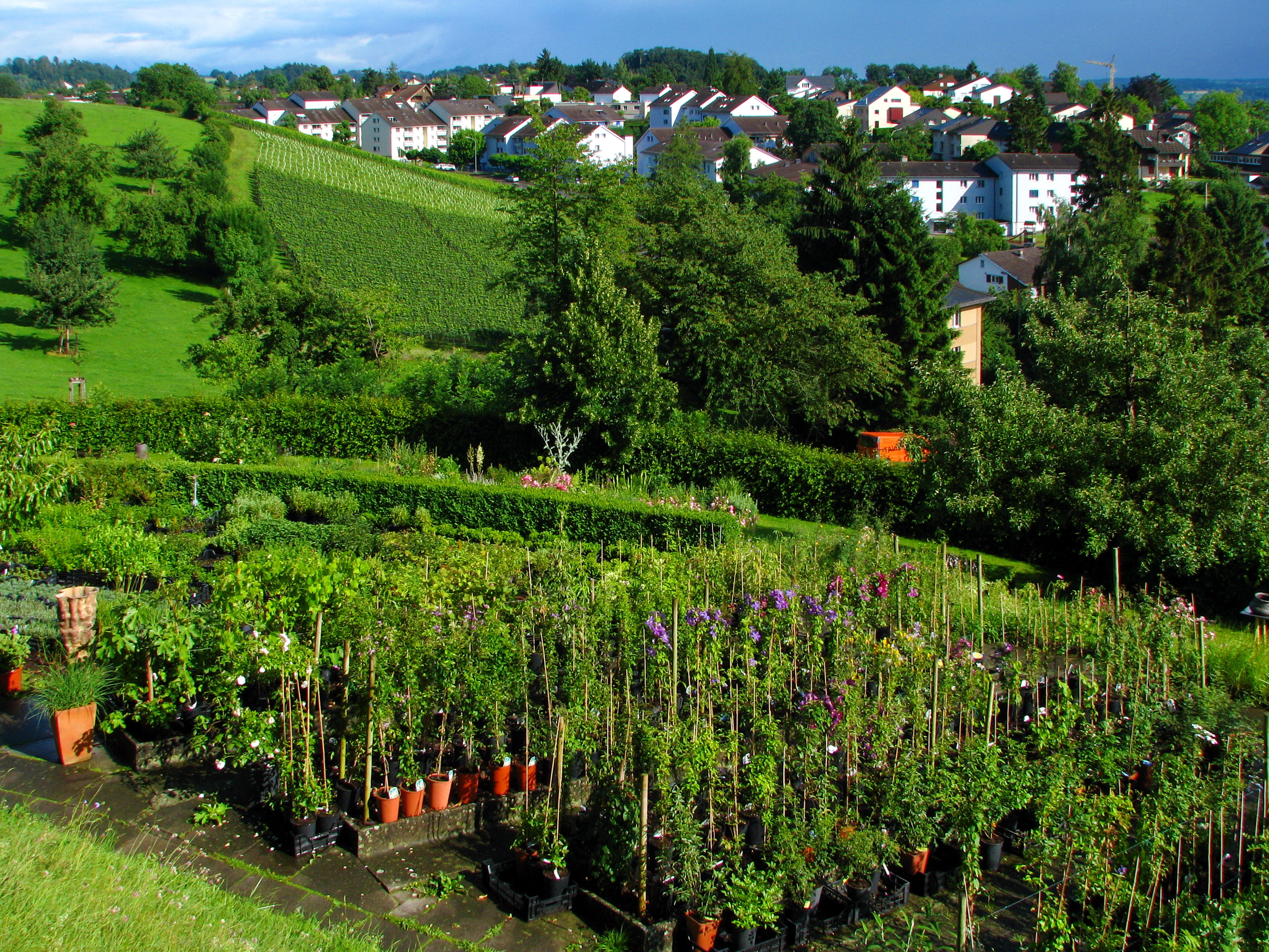 Uster (Nossikon) as seen from Uster castle.